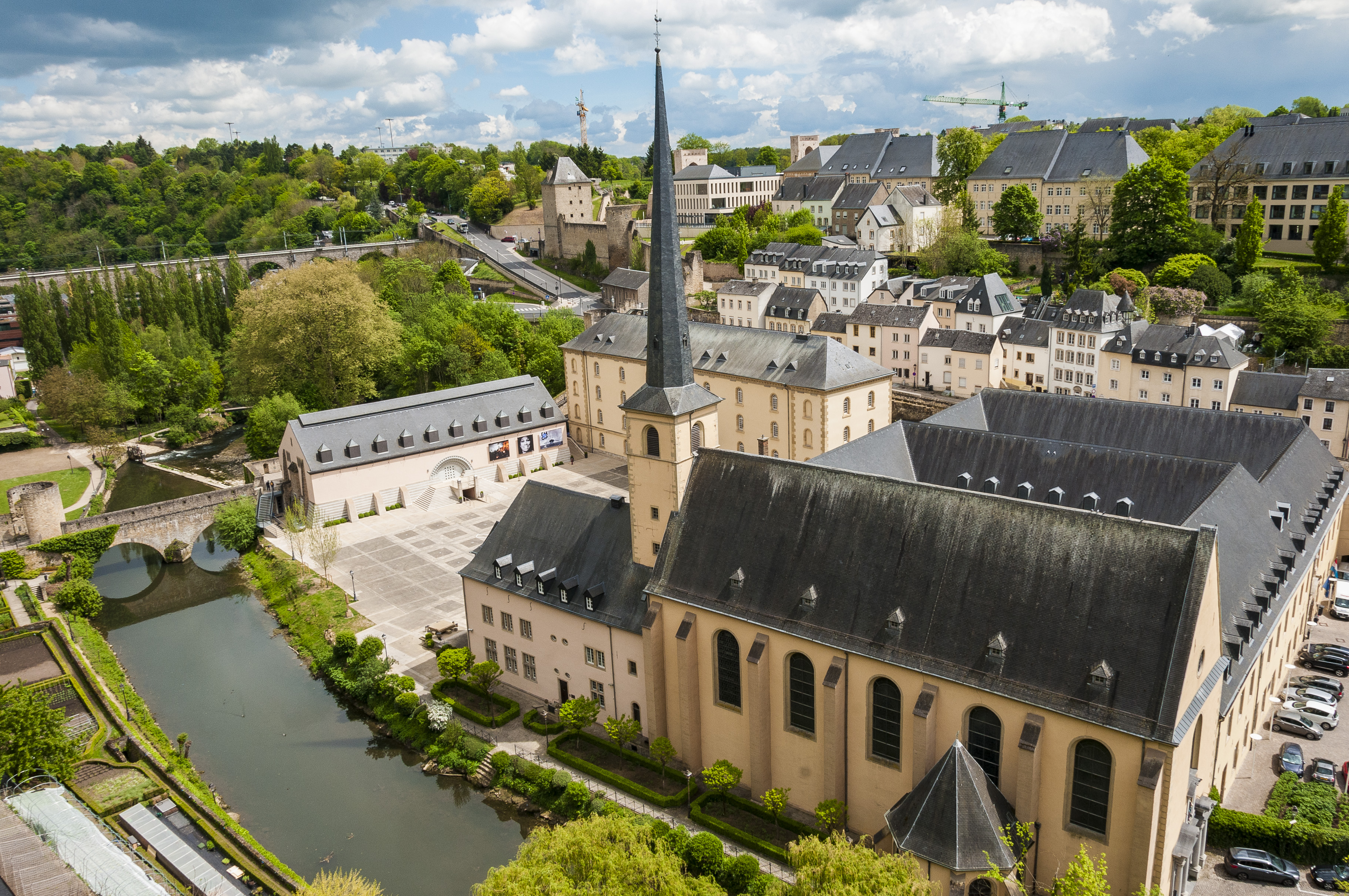 Church of St Jean du Grund - Luxembourg